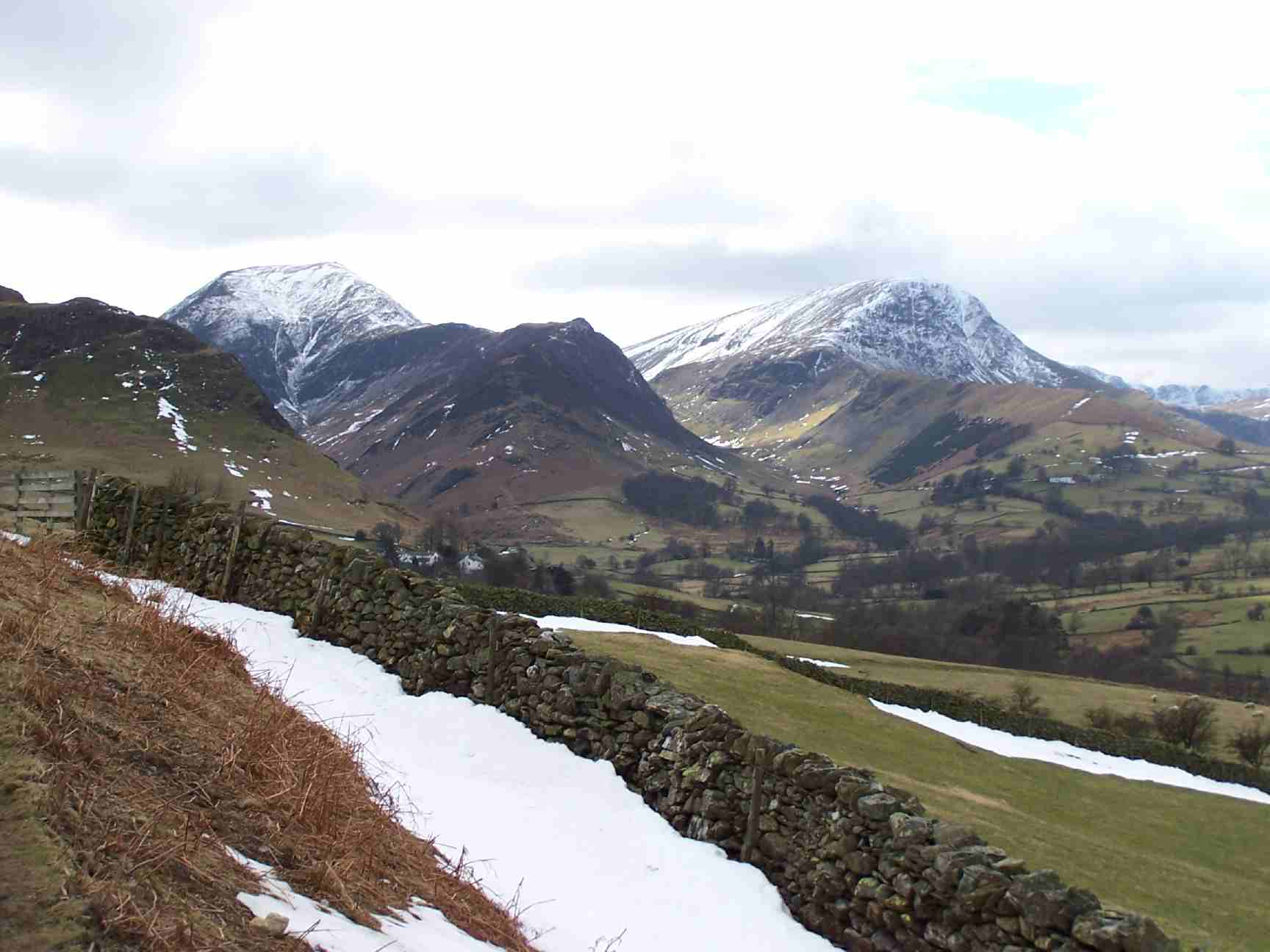 Personal picture taken by Mick Knapton on March 20th 2006.